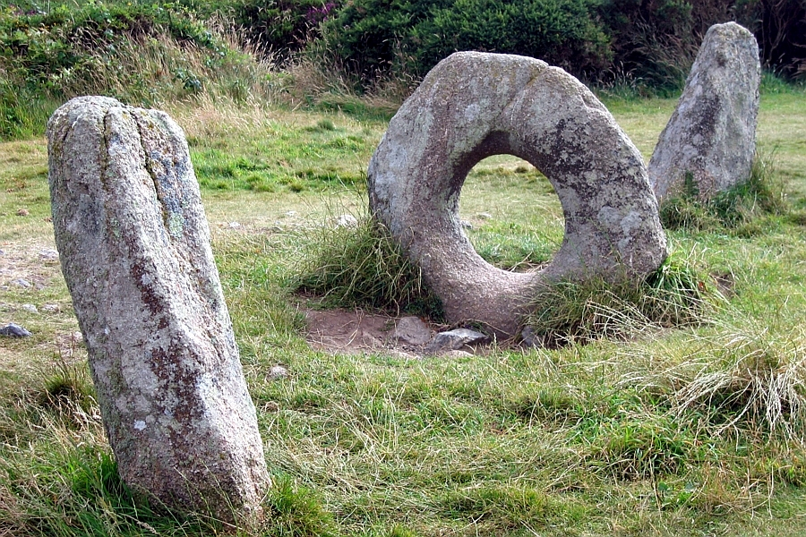 Men-an-Tol - Megalith - Cornwall - UK